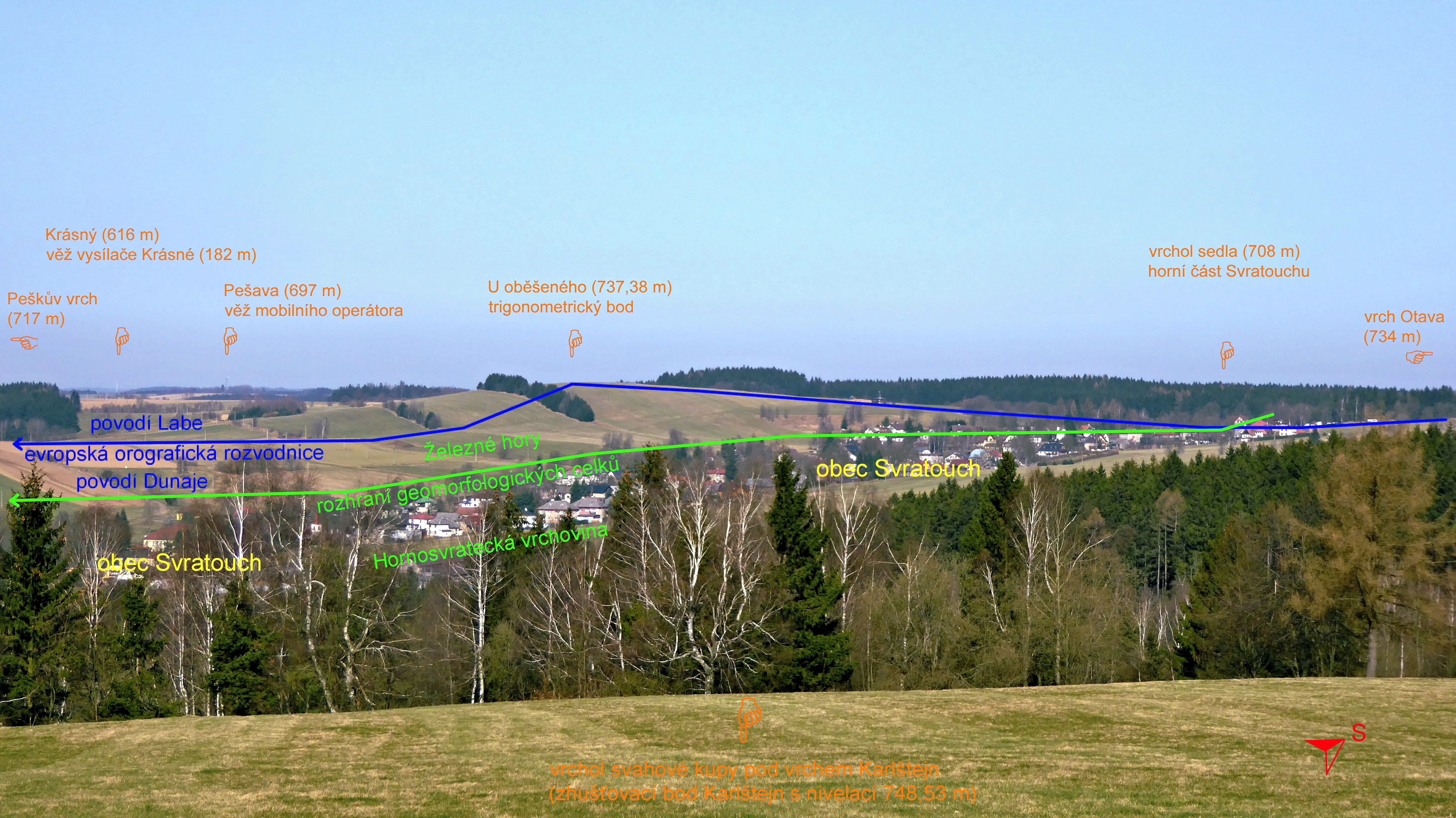 The village of Svratouch, a view from the slope (748.9 m asl.) under the hill of "Karlštejn" (784 m asl.) to the top "U oběšeného" (737.4 m asl.) in of the Iron Mountains (the top in the middle of the shot). The hill with geographic name "Karlštejn" (784 m asl.) lies in the landscape of upper-river of Svratka (czech name: Hornosvratecká vrchovina). Geographical name in czech written form "U oběšeného" is the standard name of the geographic object of hill type. The highest peak of the Iron Mountains lies in the south-eastern part of the mountain range with name "Sečská" Highlands, in the geomorphological district "Kameničská" Highlands. In the photo orientative the labels in czech: height points (orange), division of the river basins of the european rivers Elbe and Danube (blue), geomorphological units (green), the village (yellow) and roughly north (red). Photo-location: Czechia, Pardubice Region, the village of "Svratouch". Sources of information: Czech Hydrometeorological Institute – website, see Nature Conservation Agency of the Czech Republic – website, see State Administration of Land Surveying and Cadastre – website, see